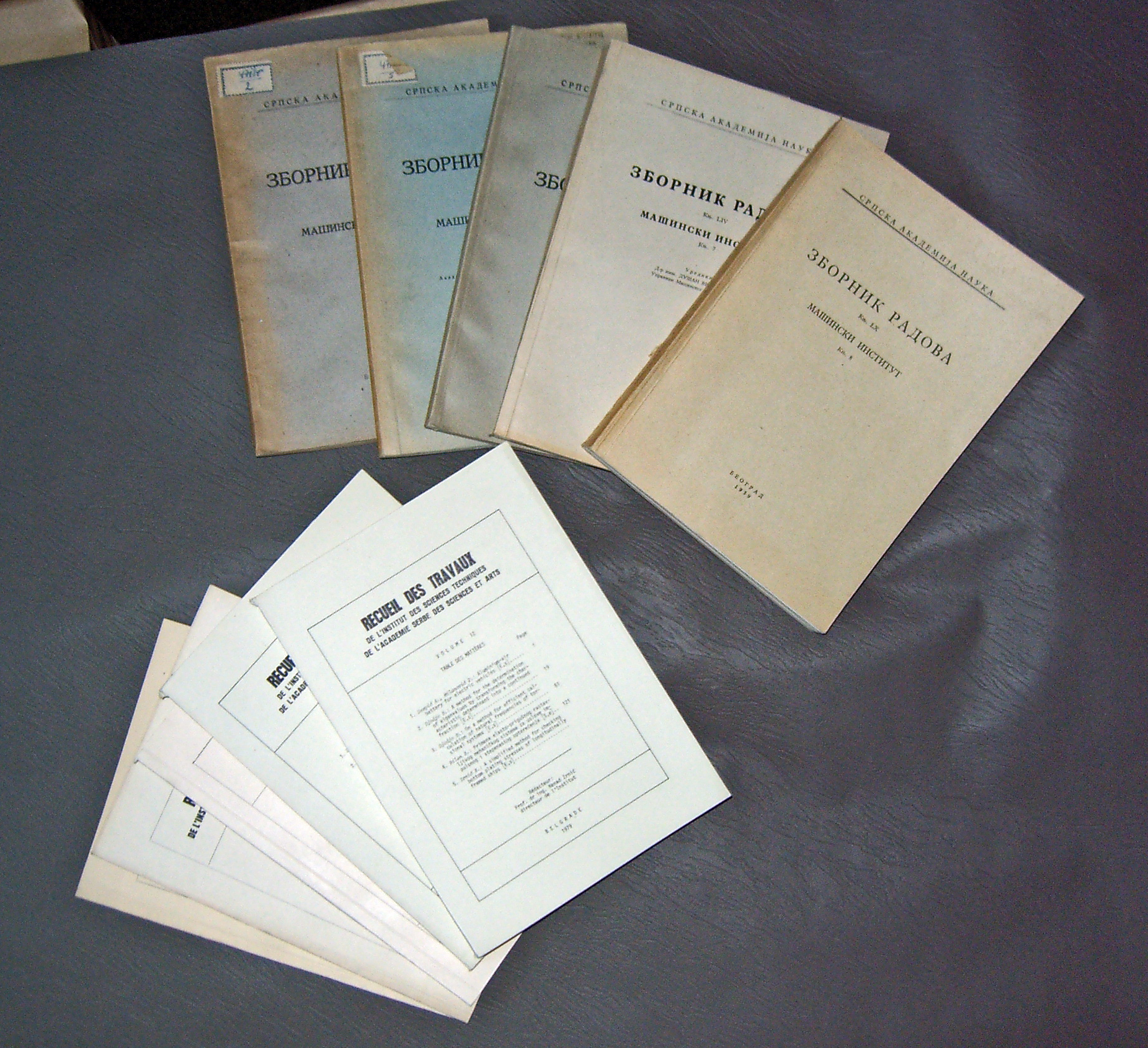 Zbornik radova SAN. Mašinski institut (Recueil des travaux de l’Academie serbe des Sciences. Institut de construction mécaniques) Nine issues were published between 1949 and 1961 Zbornik radova Mašinskog instituta „Vladimir Farmakovski“. ISSN 0373-7047 (sadržaj) (Recueil des travaux de l’Institut de constructions méchaniques „Vladimir Farmakovski“ Three issues were published between 1964 and 1971 Srpski (latinica): Zbornik radova SAN. Mašinski institut (Recueil des travaux de l’Academie serbe des Sciences. Institut de construction mécaniques) Od 1949. do 1961. godine objavljeno je devet svezaka. Zbornik radova Mašinskog instituta „Vladimir Farmakovski“. ISSN 0373-7047 (sadržaj) (Recueil des travaux de l’Institut de constructions méchaniques „Vladimir Farmakovski“ Od 1964. do 1971. objavljene su tri sveske.